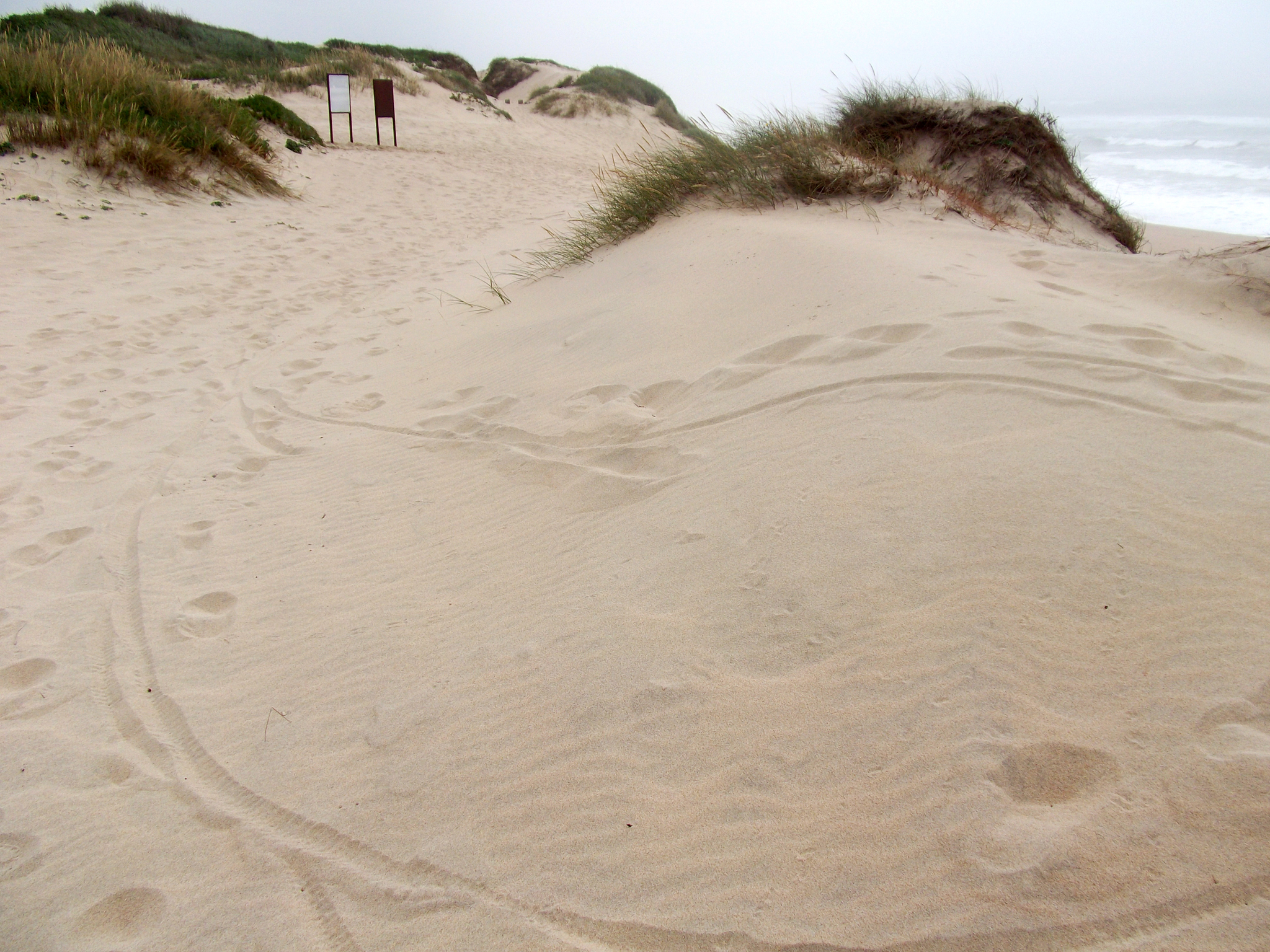 Rio Alto Beach, Estela, Póvoa de Varzim